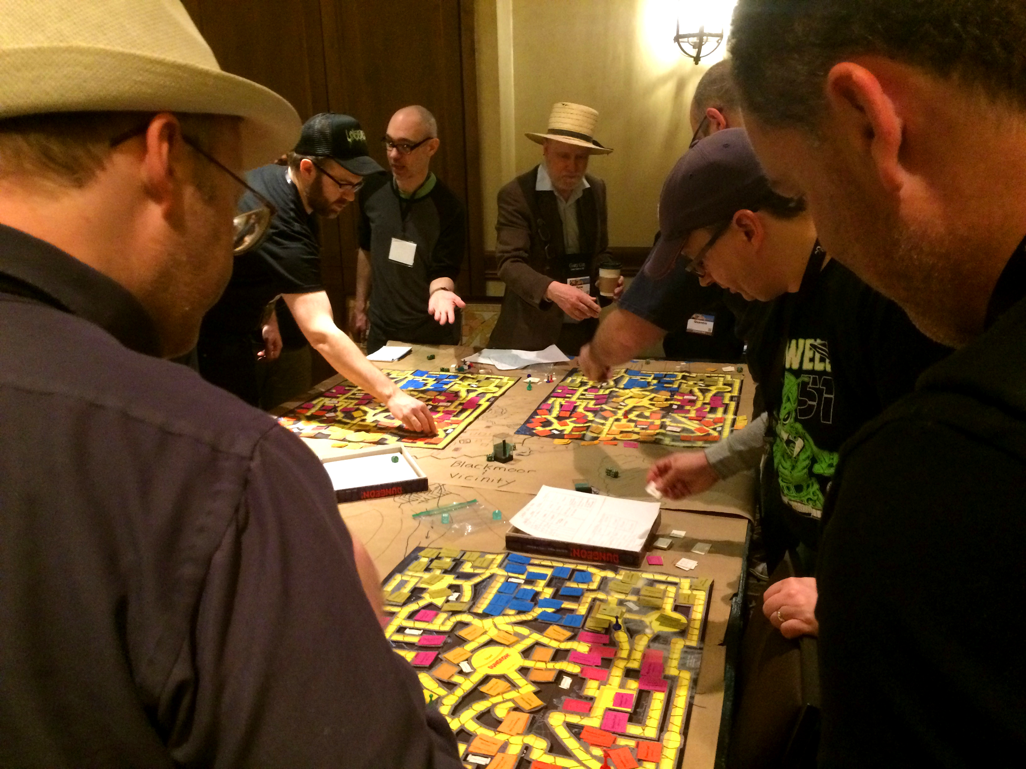 Dave Megarry at Gary Con gaming convention, March 2018, presenting his classic board game Dungeon! The table is Dave Arneson's ping pong table with a classic map of Blackmoor on it. Megarry is one of the original Blackmoor players, and was inspired by that game to create Dungeon!